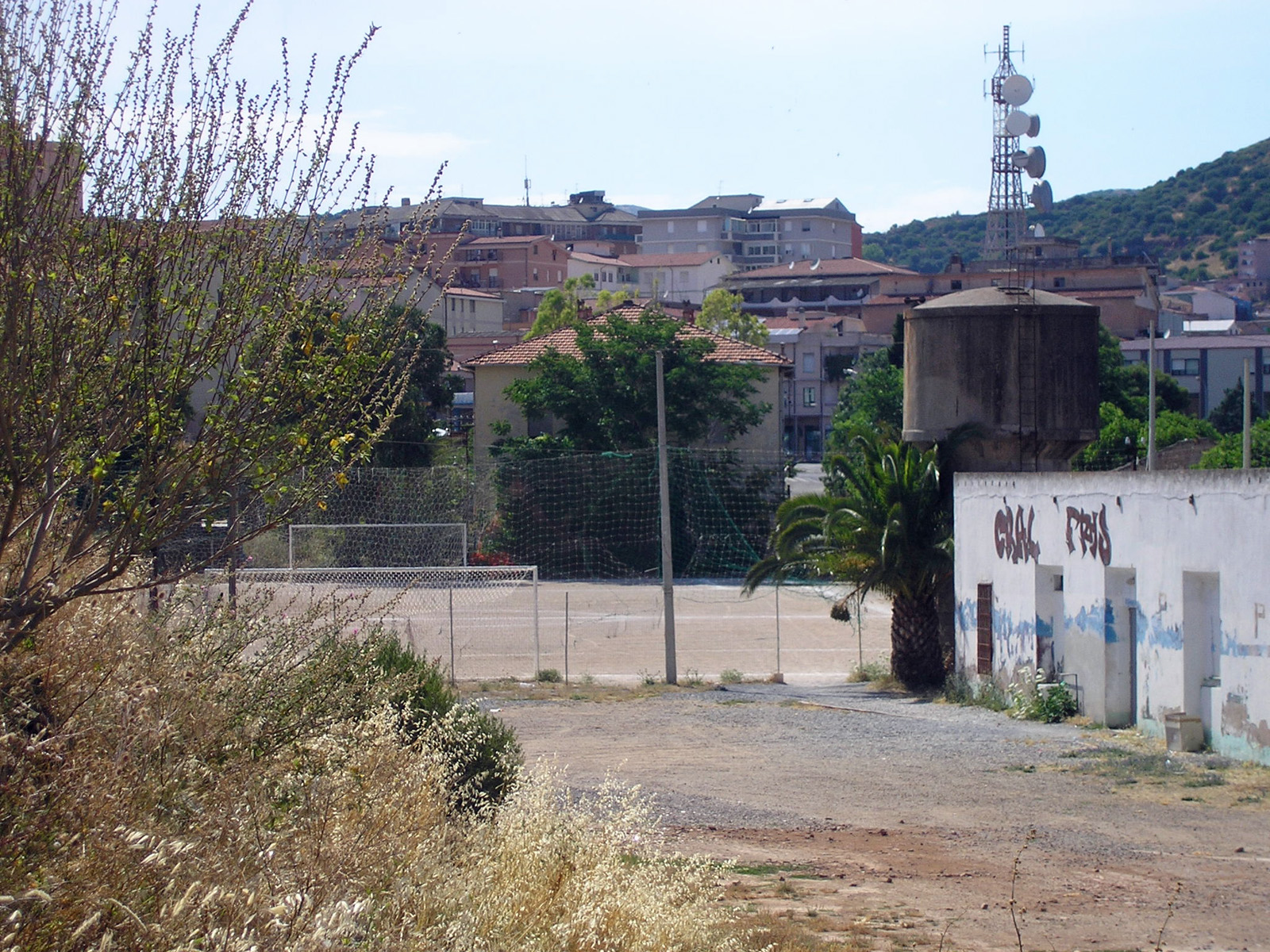 The area of the former FMS station of Iglesias, in Sardinia, Italy, terminus of the railway for San Giovanni Suergiu, closed in 1969. Where in the past there were the rails now there's a football field.